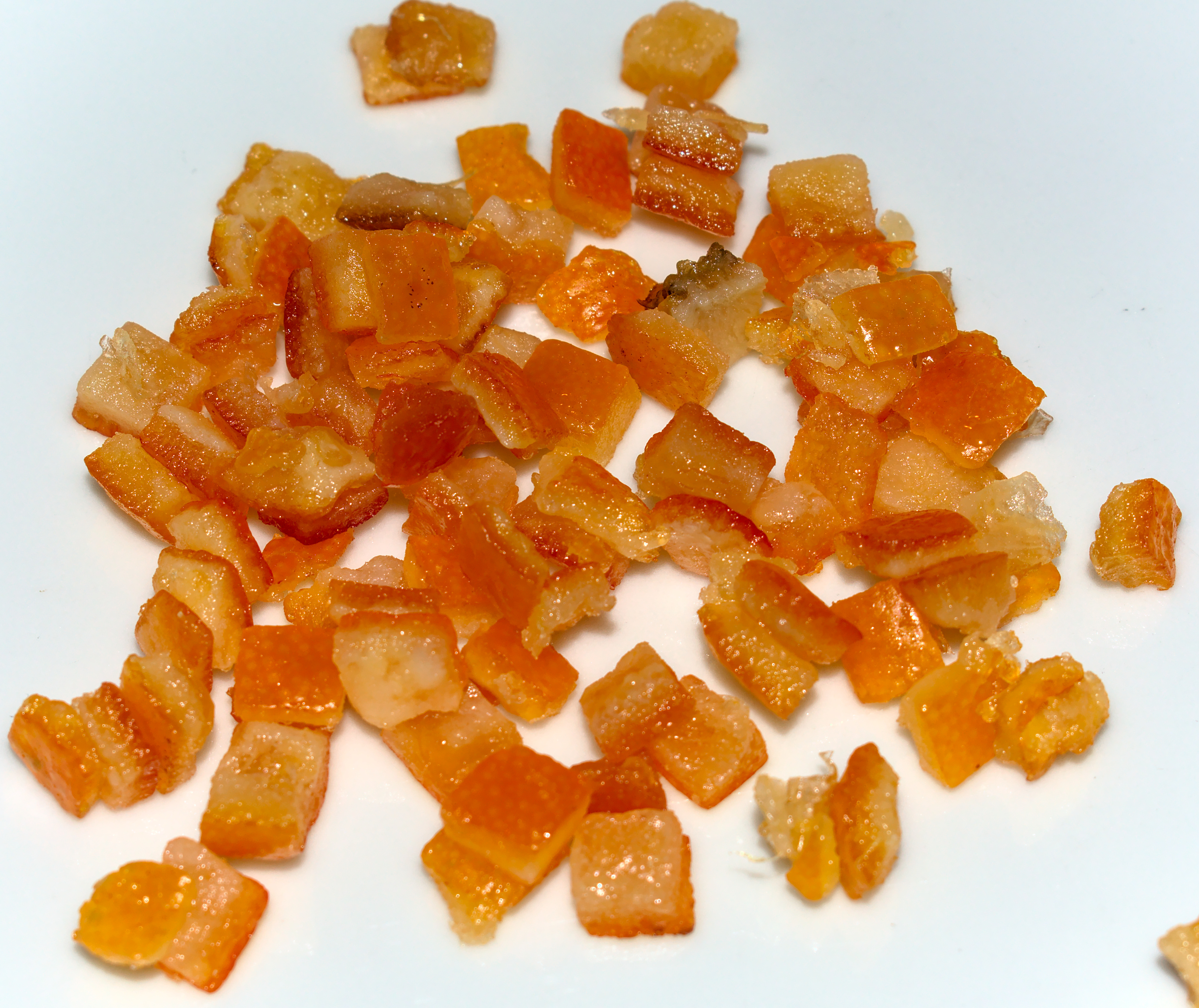 Orangeat, diced small (Macédoine), each cube measures roughly 6mm on each side.